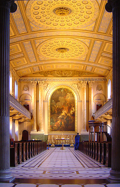 Chapel of the Greenwich Hospital Image by ChrisO